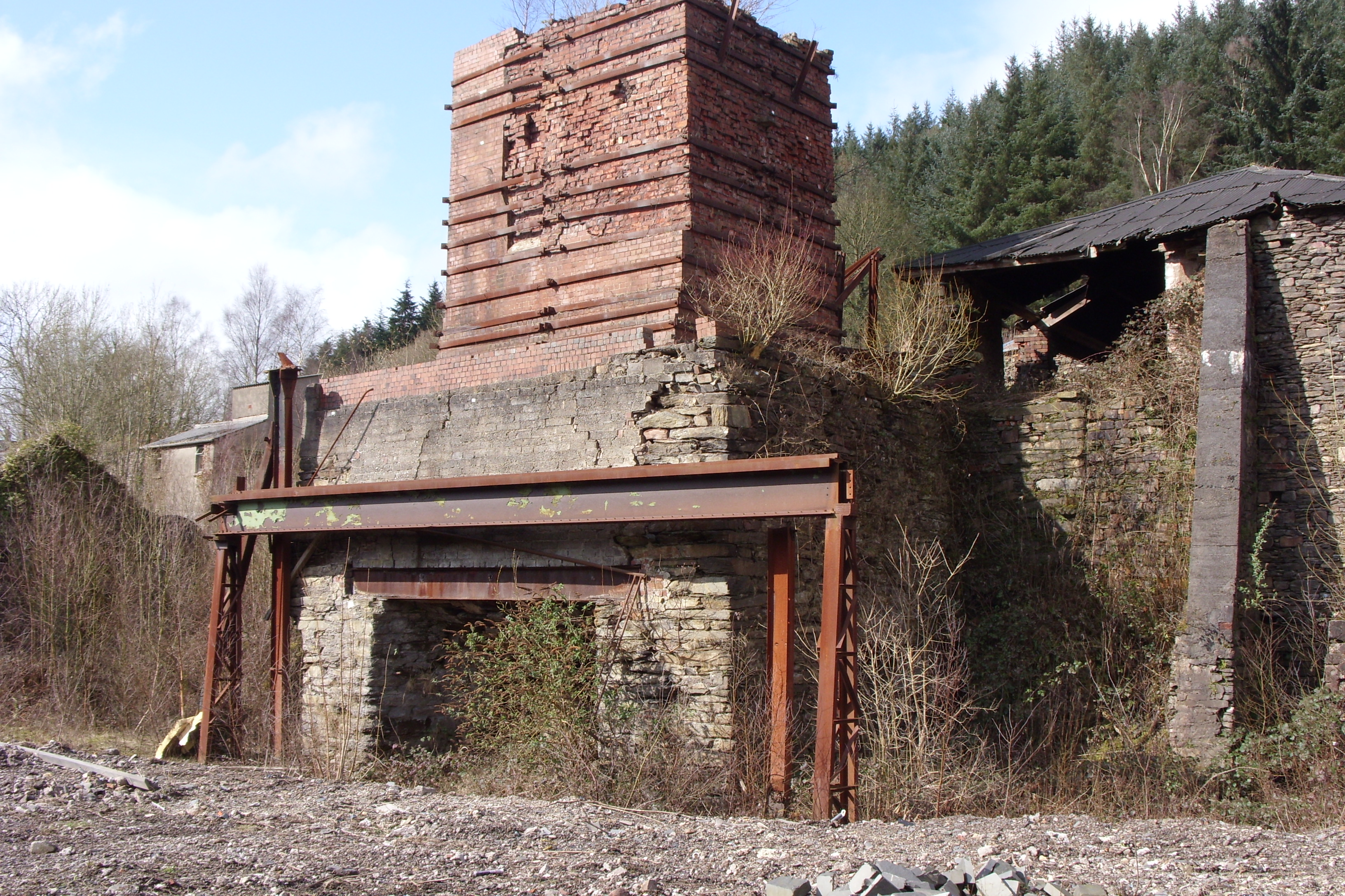 Backbarrow furnace stack, showing taphole entrance